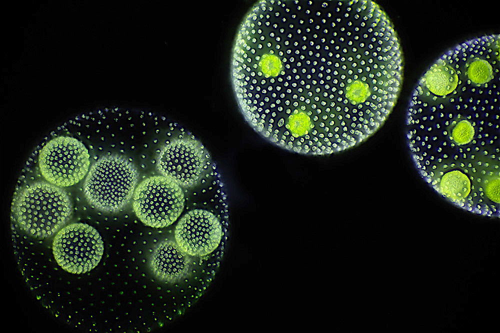 Volvox is a genus of multicellular green algae.